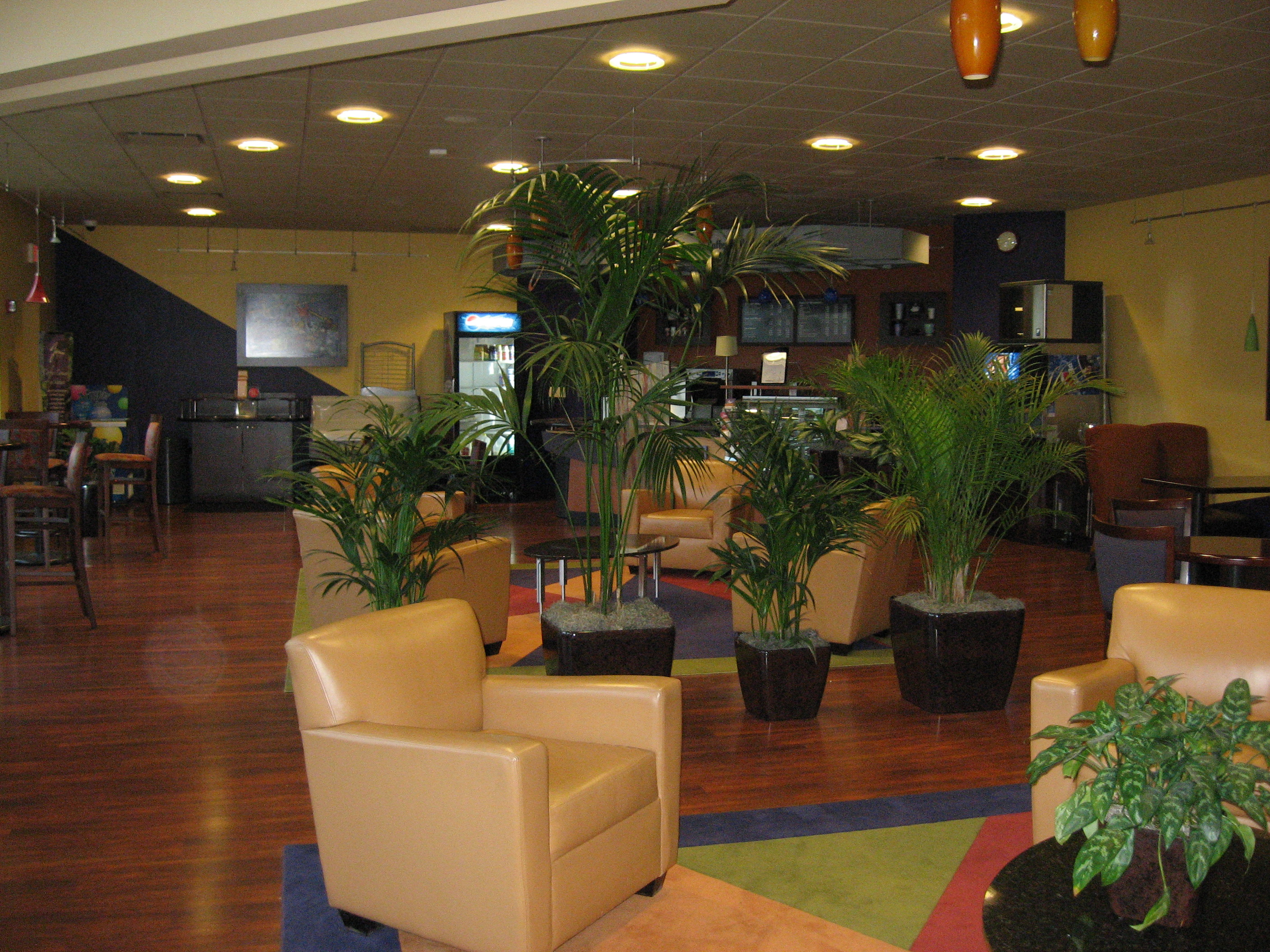 The student lounge at Mervis Hall, part of the University of Pittsburgh Katz School of Business 40°26′26.8″N 79°57′11.6″W / 40.440778°N 79.953222°W